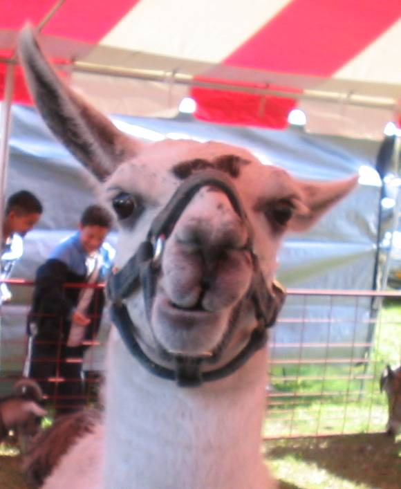 Photo of Llama at a petting zoo in Florida.